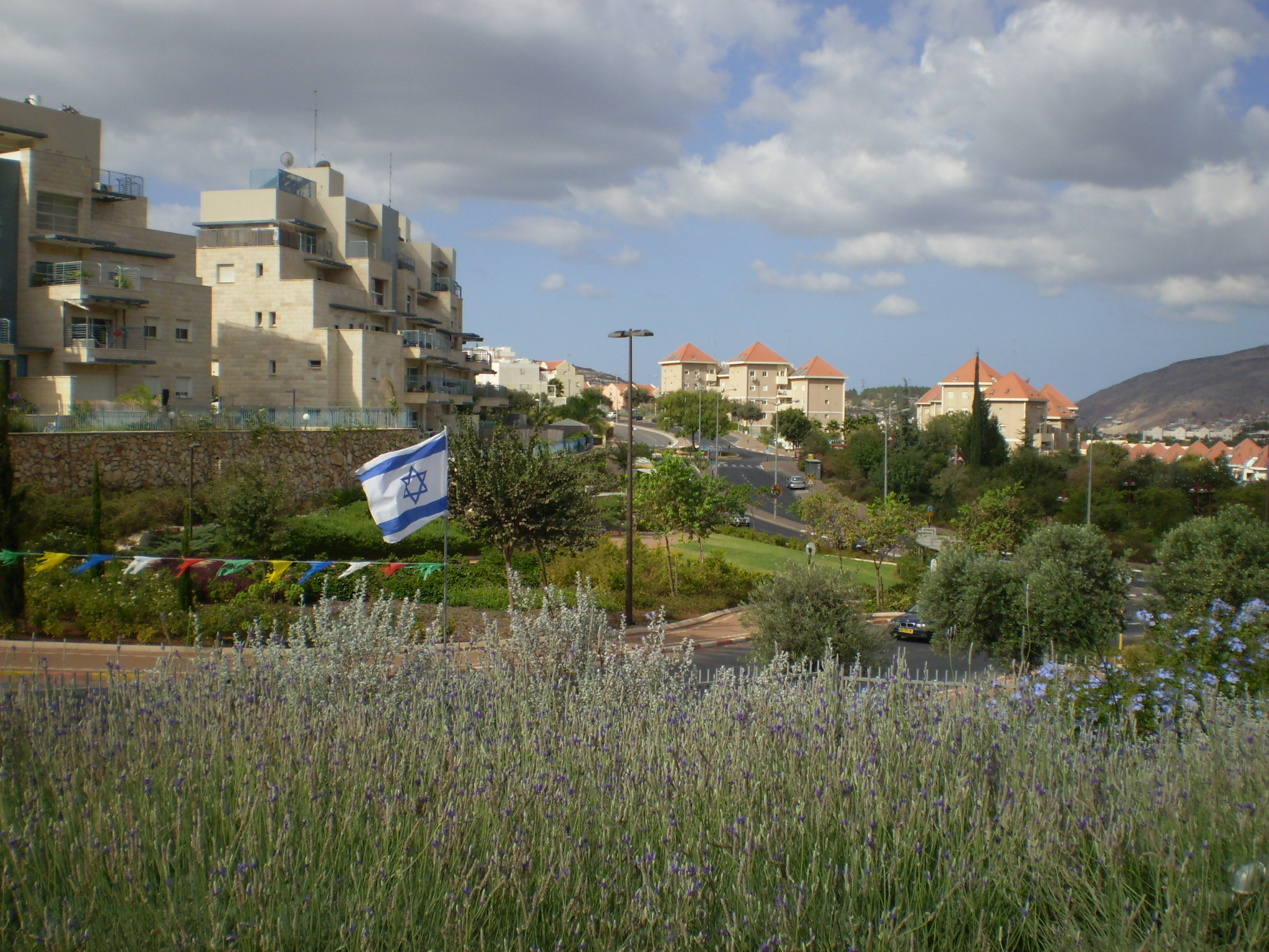 View of the Galil quater of Karmiel (from the new Family park)